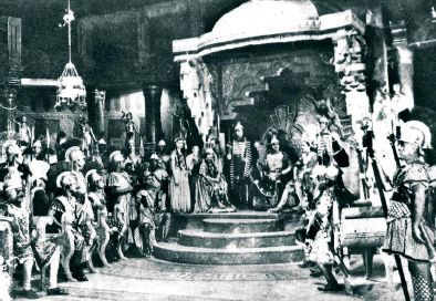 A scene from the 1938 Tamil-language film Matrubhoomi.